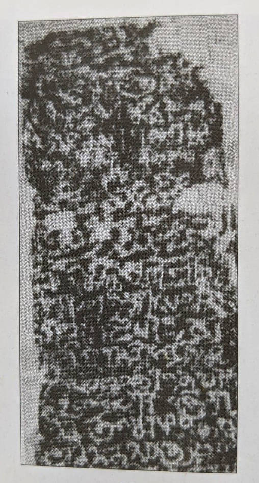 Rajendra tiruketiswaram inscription 2